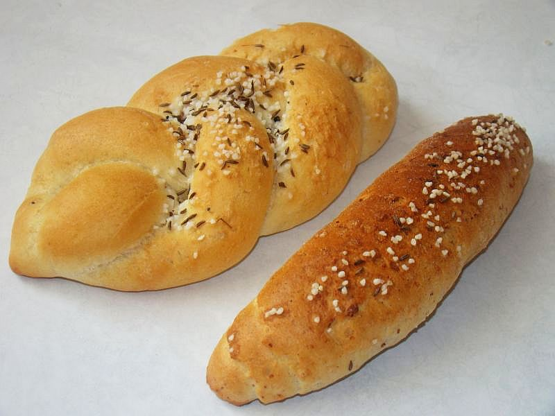 silesian bread